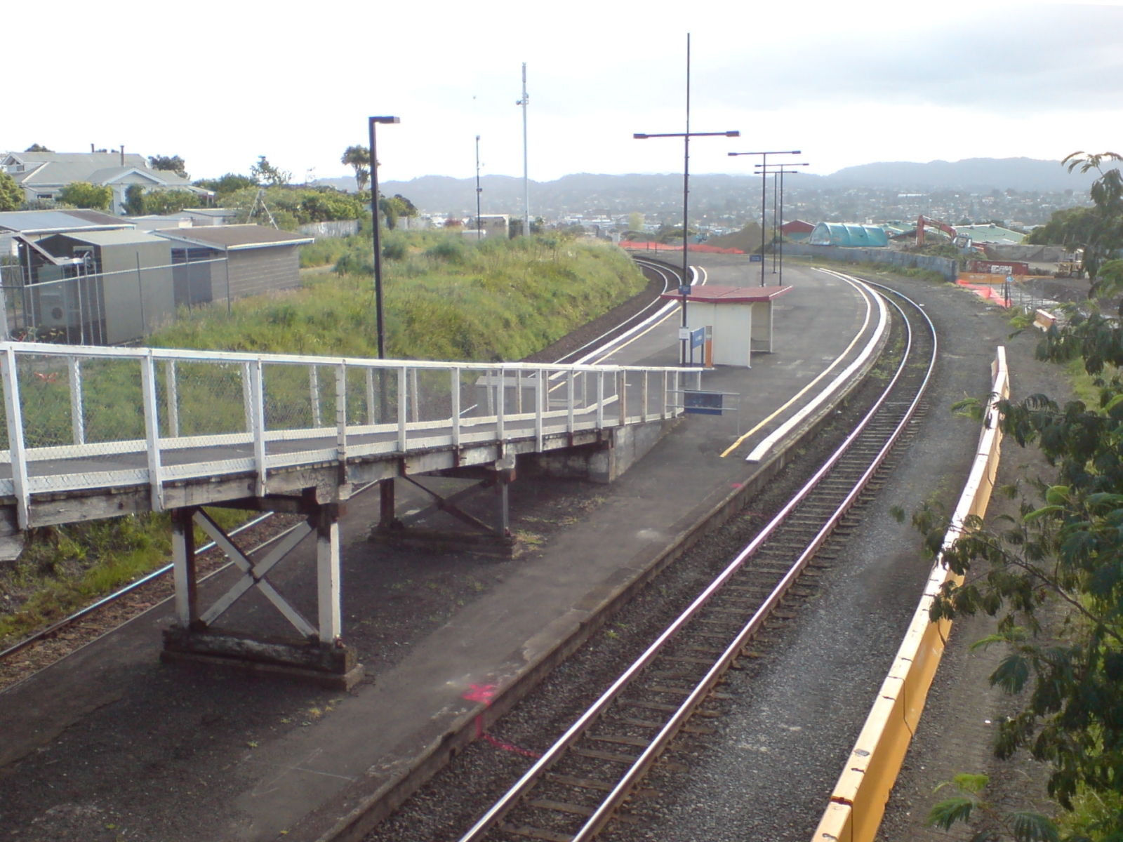 The old (until approximately 2009) Avondale Train Station in Auckland City, New Zealand. A temporary station was erected on the eastern side of the bridge from which the photo was taken, and the new station (opened 2010) now lies southwest of the bend ahead on the photo, several hundred meters closer to the Avondale Town Centre.